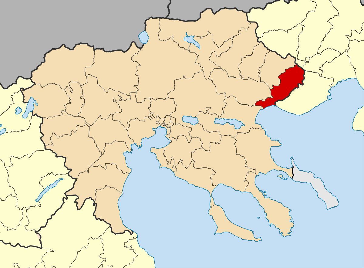 Locator map for Amfipoli municipality in Greek region Central Macedonia (2011)